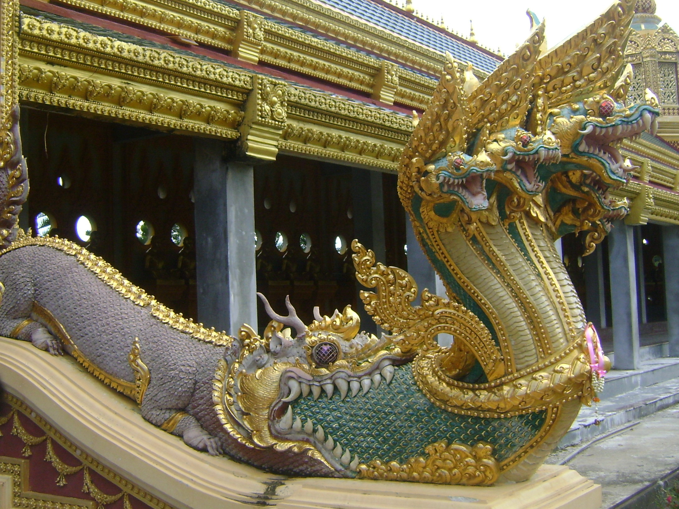 Multiheaded Naga emerges from mouth of a makara at Phra Maha Chedi Chai Mongkol, Amphoe Nong Phok, Roi Et Province, Thailand